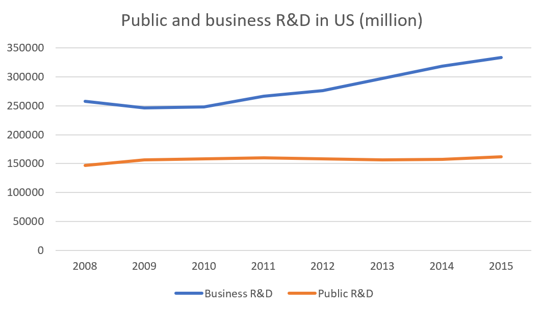 This figure is made according to the survey of National Science Foundation is U.S.